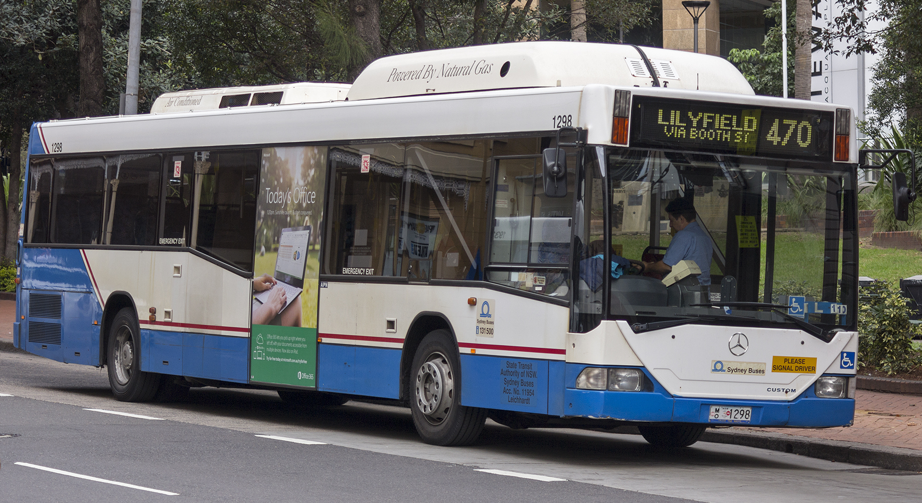 Sydney Buses (mo 1298) Custom Coaches 'Citaro' bodied Mercedes-Benz O405NH CNG on Loftus Street in Circular Quay, New South Wales.